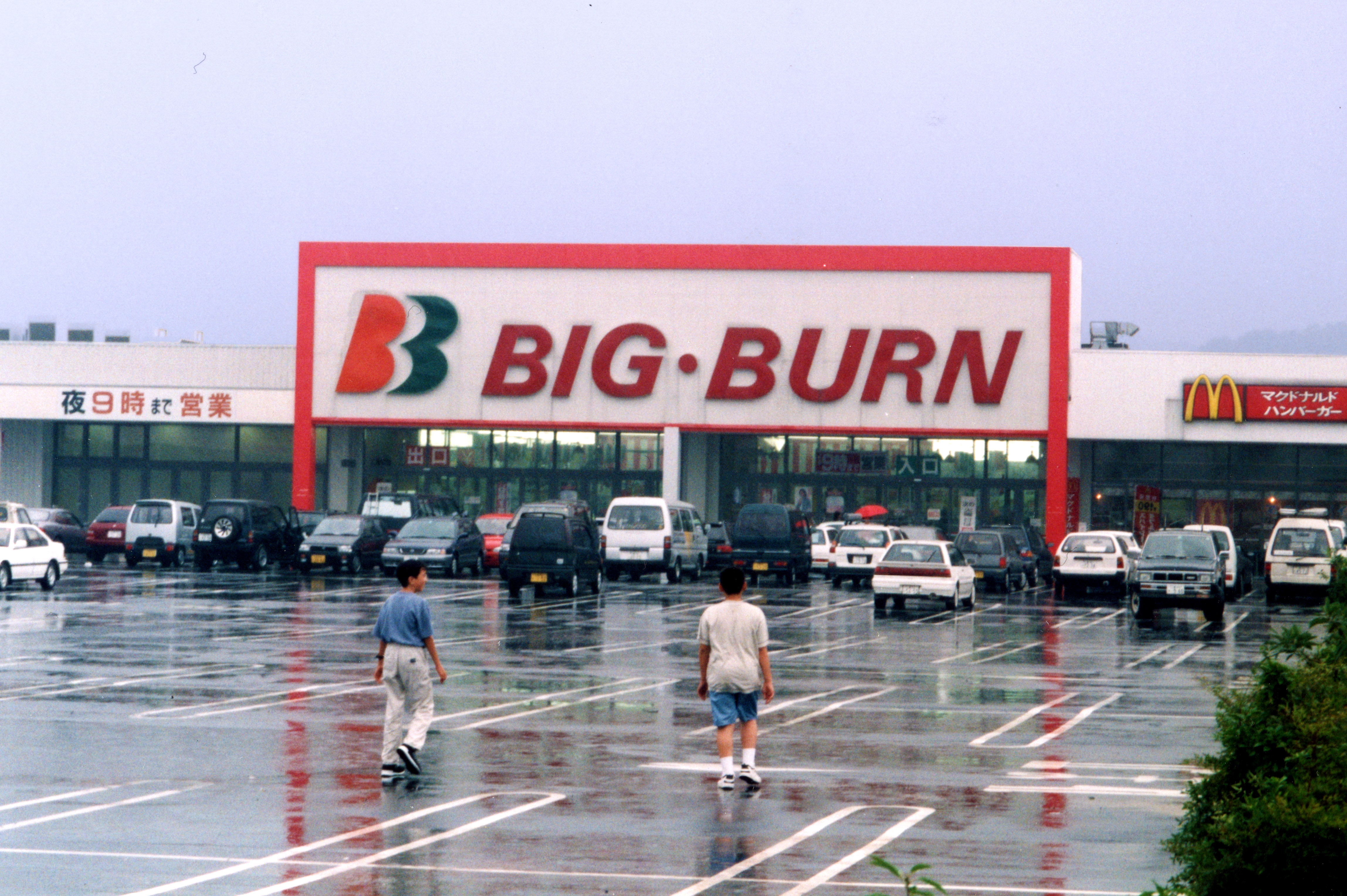 BIGBURN Yokkaichi, 4-5 Tomarikoyanagicho Yokkaichi-City Mie Japan.